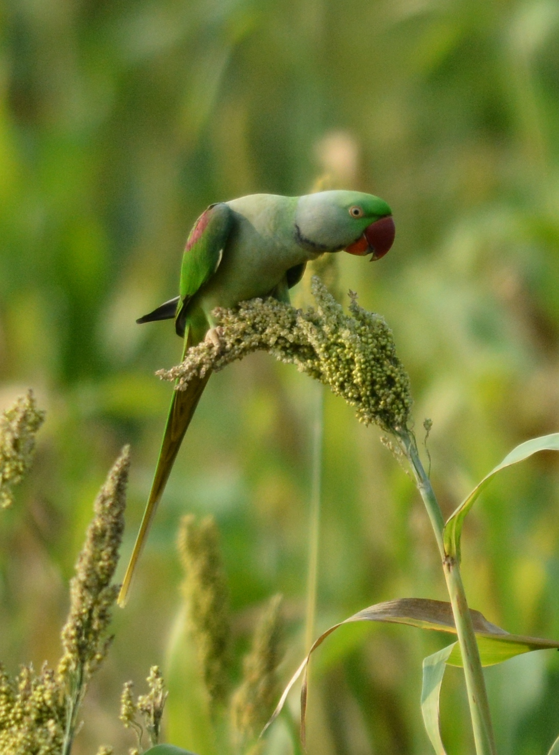 Alexandrine Parakeet Psittacula eupatria by Dr. Raju Kasambe